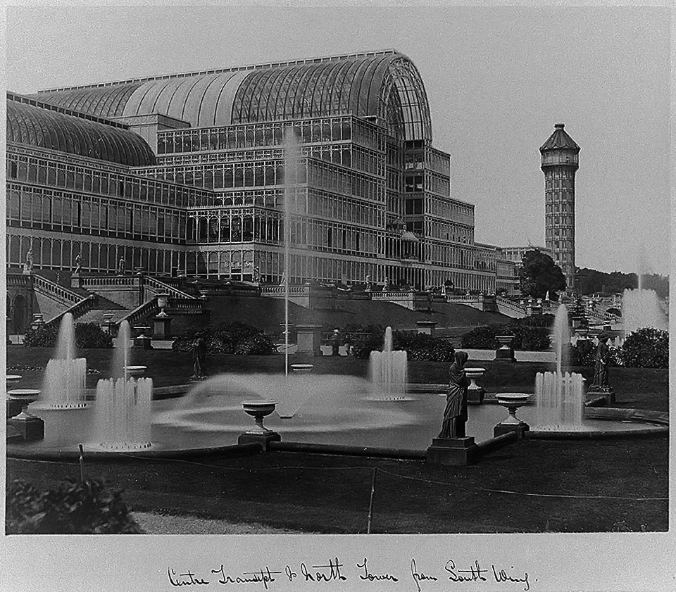 Crystal Palace Centre transept & north tower from south wing